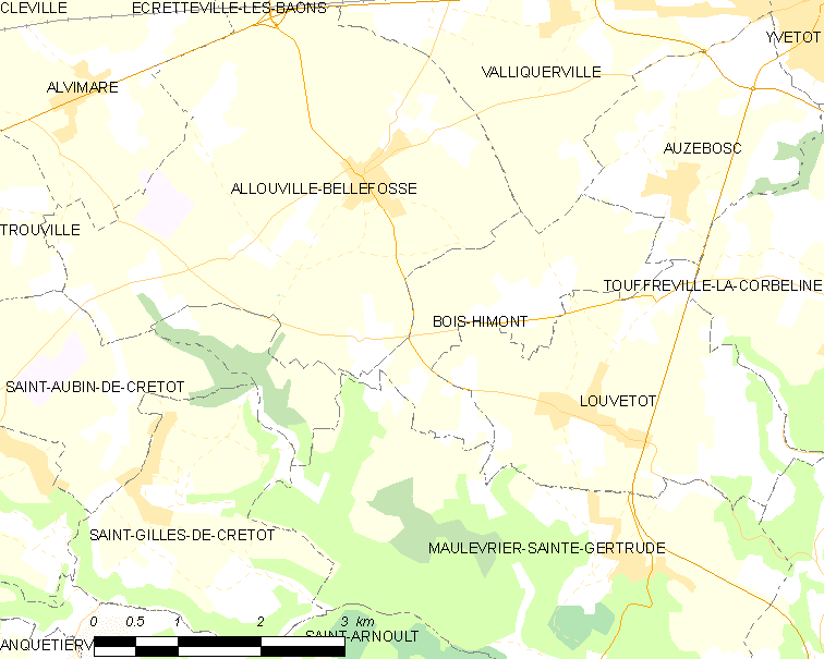 Map of French municipality Bois-Himont